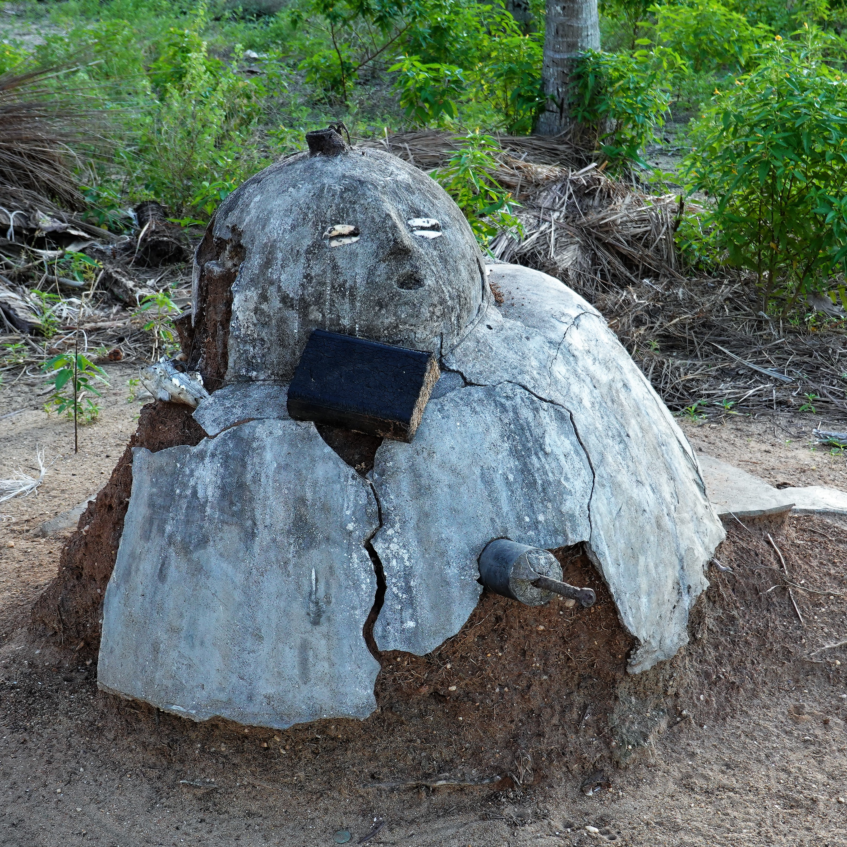 legba partly broken